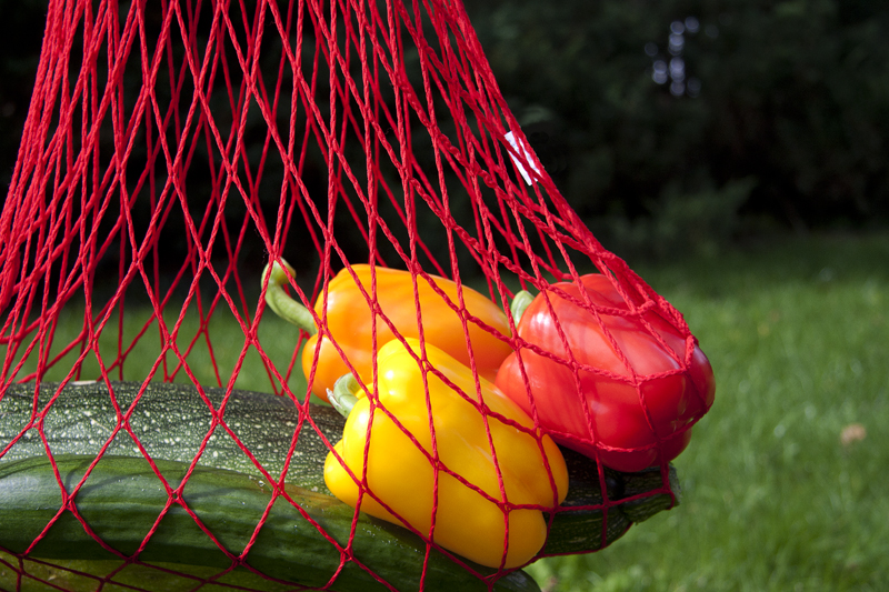 Red String bag with vegetables, detail